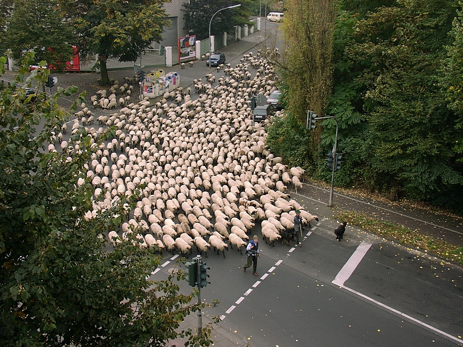 Flock of sheep moving through Cologne streets on a holiday morning